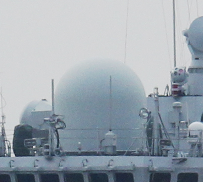 Type 366 radar of PLANS Changzhou (FFG-549).